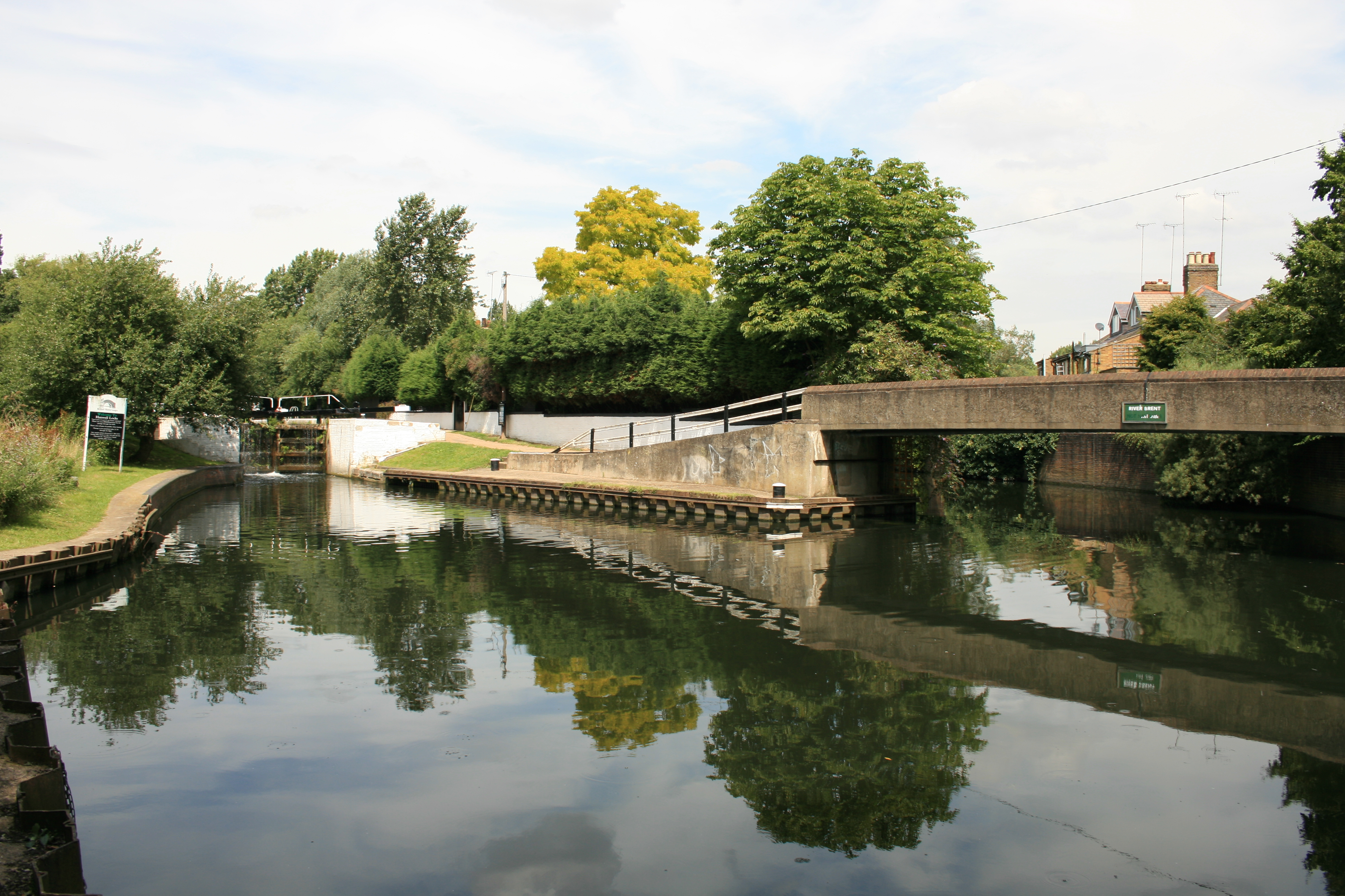 Confluence of the Brentford arm of the Grand Union Canal on the left, with the River Brent coming from under the bridge on the right. Camera is looking north.